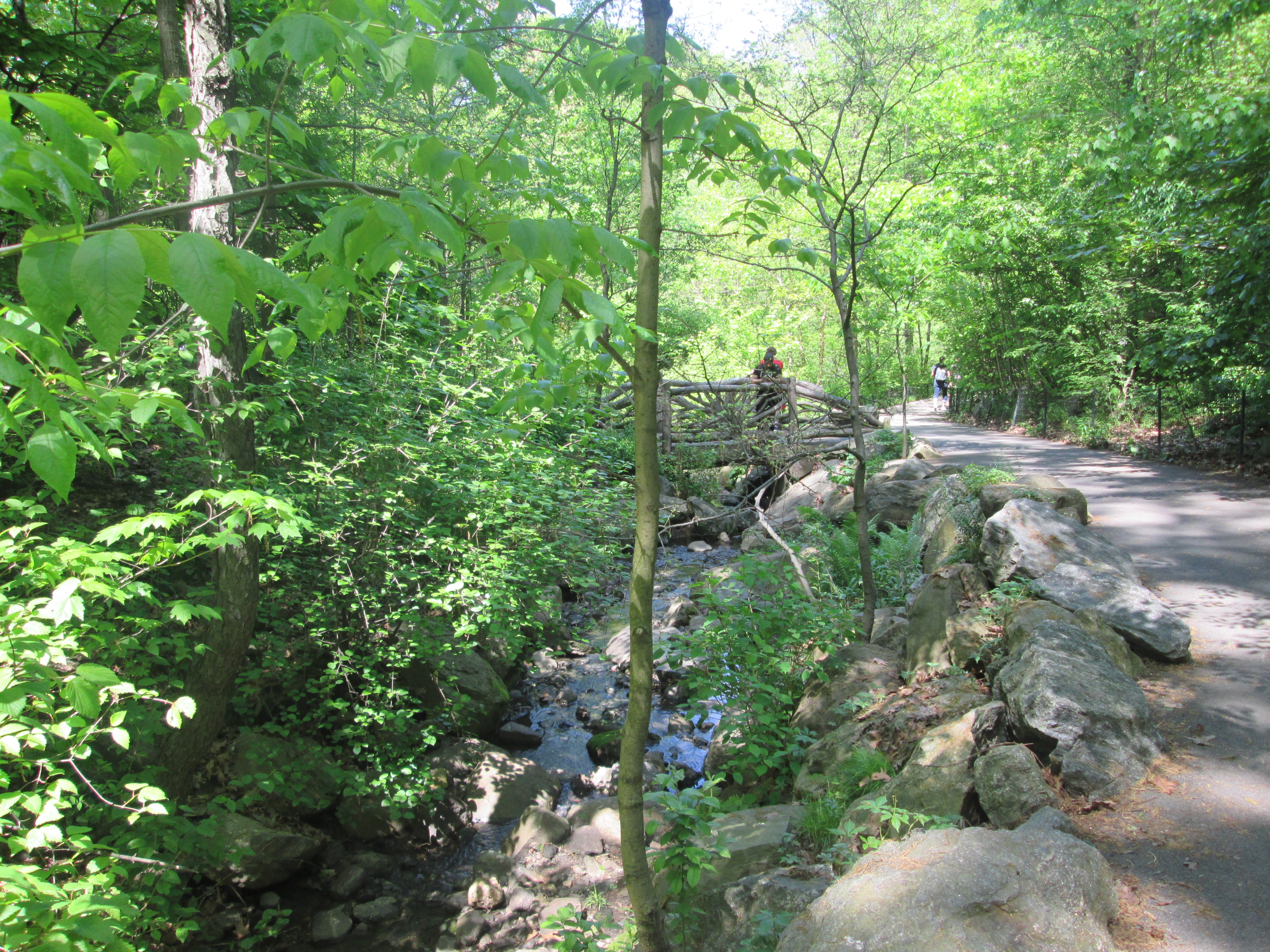 Central Park in Manhattan, New York; vicinity of the Pool and the Loch in the northern section of the park